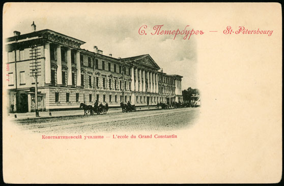 Saint Petersburg (Russia), Moskovsky Prospekt.